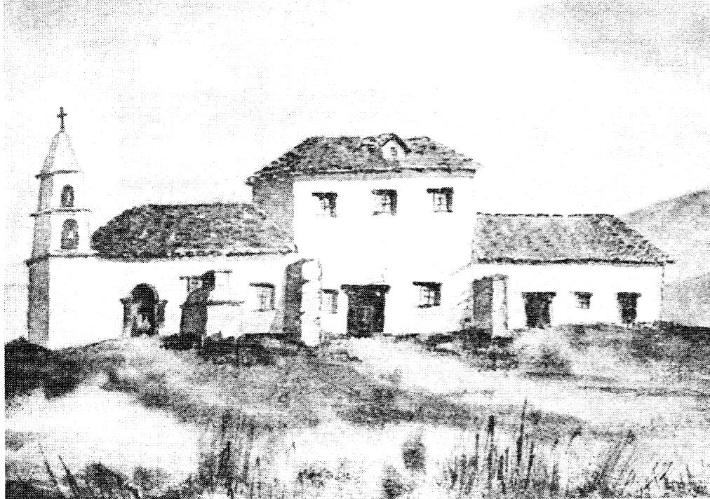 Las Flores Estancia's San Pedro Chapel, from an 1850 sketch. This is not the nearby Las Flores Adobe (NRHP 68000021). Taken from The Story of Mission San Antonio de Pala (Carillo, J.M.) p. 10.